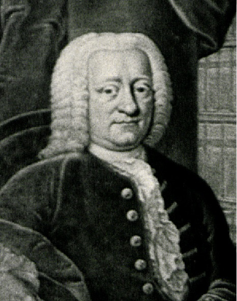 The doctor Feuerlein, detail of a photo of a portrait painting, owned by the Feuerlein family, origin around 1750